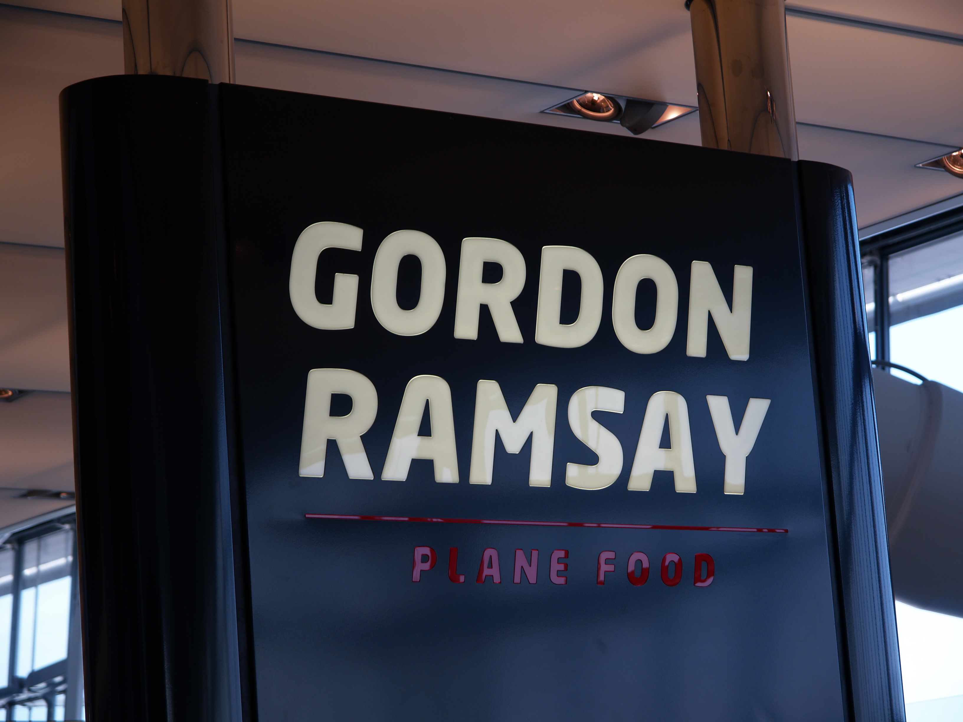 The signage at Gordon Ramsay Plane Food in Heathrow Airport Terminal 5.